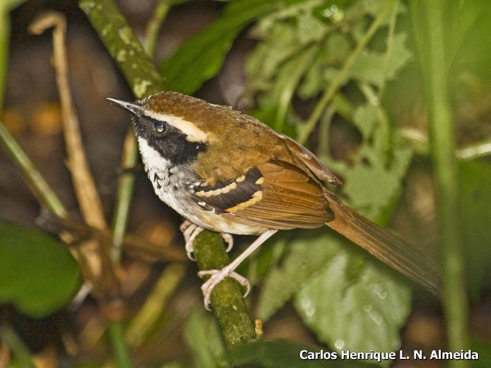 Myrmeciza loricata in Itatiaia National Park (Itatiaia, Rio de Janeiro, Brazil)